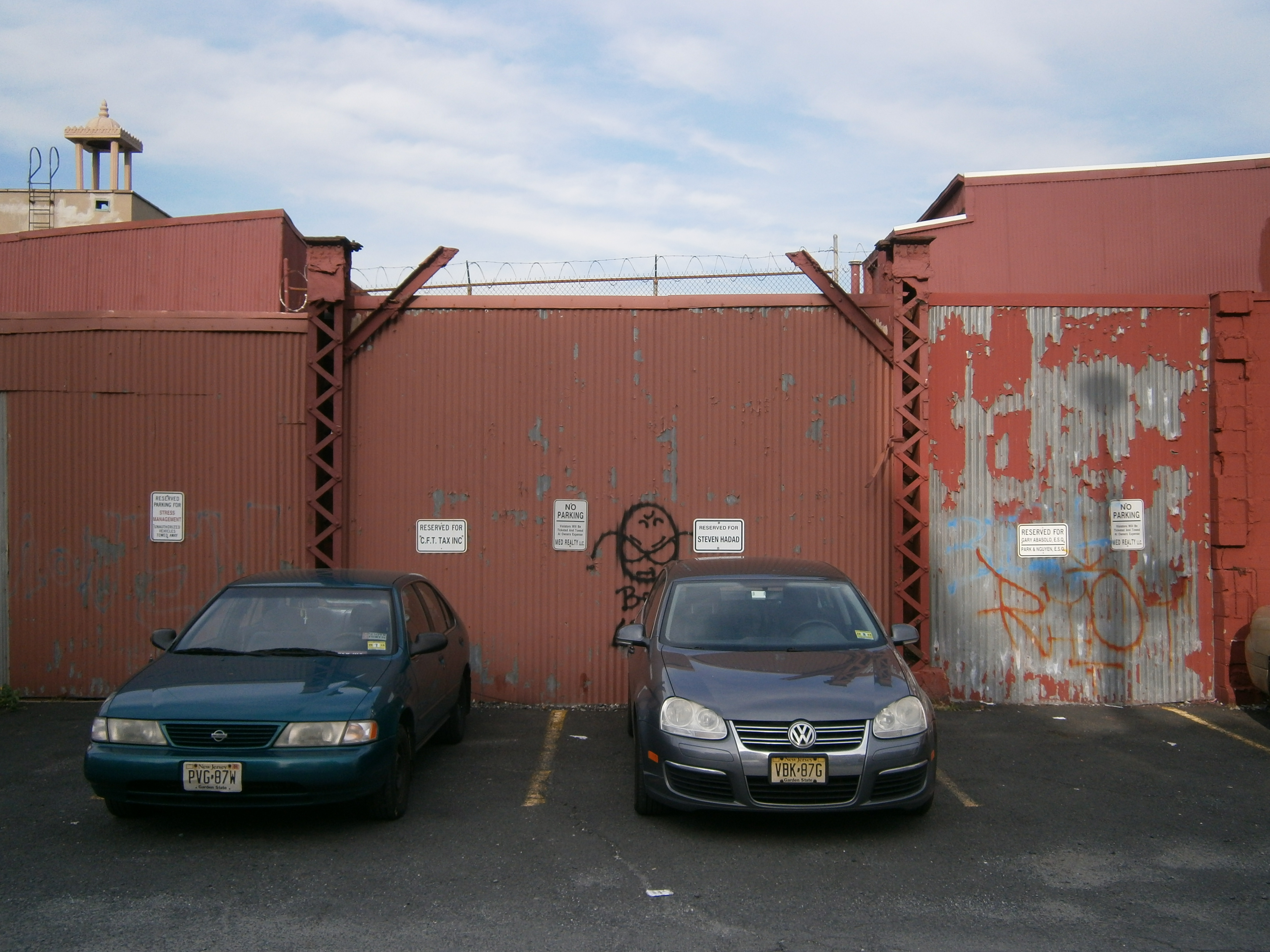 Two posts of trestle which carried elevated streetar over Bergen Arches, Long Dock Tunnel, and State Highway 139 in Jersey City